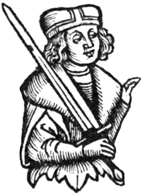 Wenceslaus II of Cieszyn